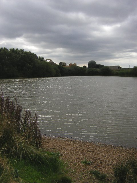 Pond at Jerusalem. Pond by Brick Kiln Holt with Hughes' rendering plant in the background - an assault on the eye and nose !